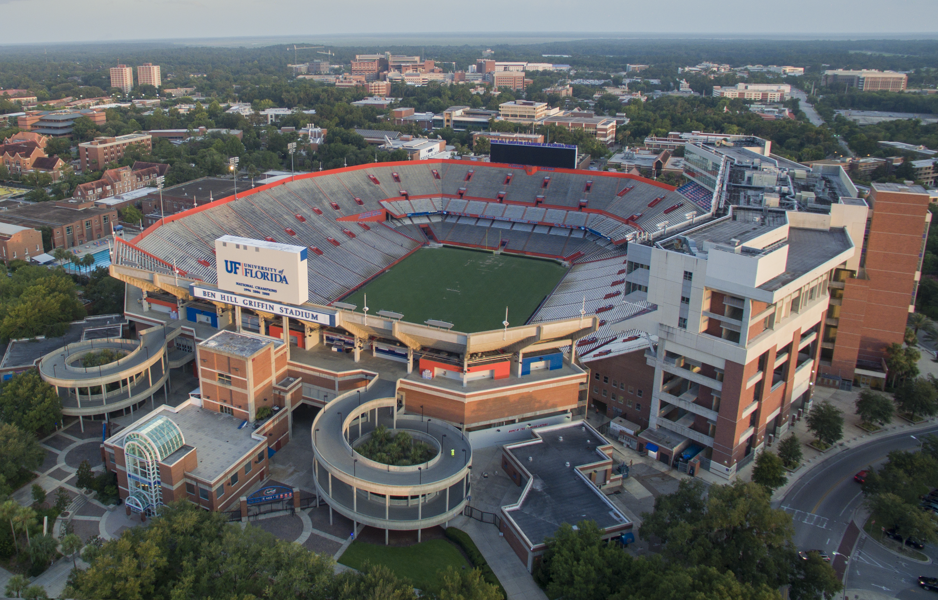 Picture taken July 2015 of Ben Hill Griffin Stadium at the University of Florida